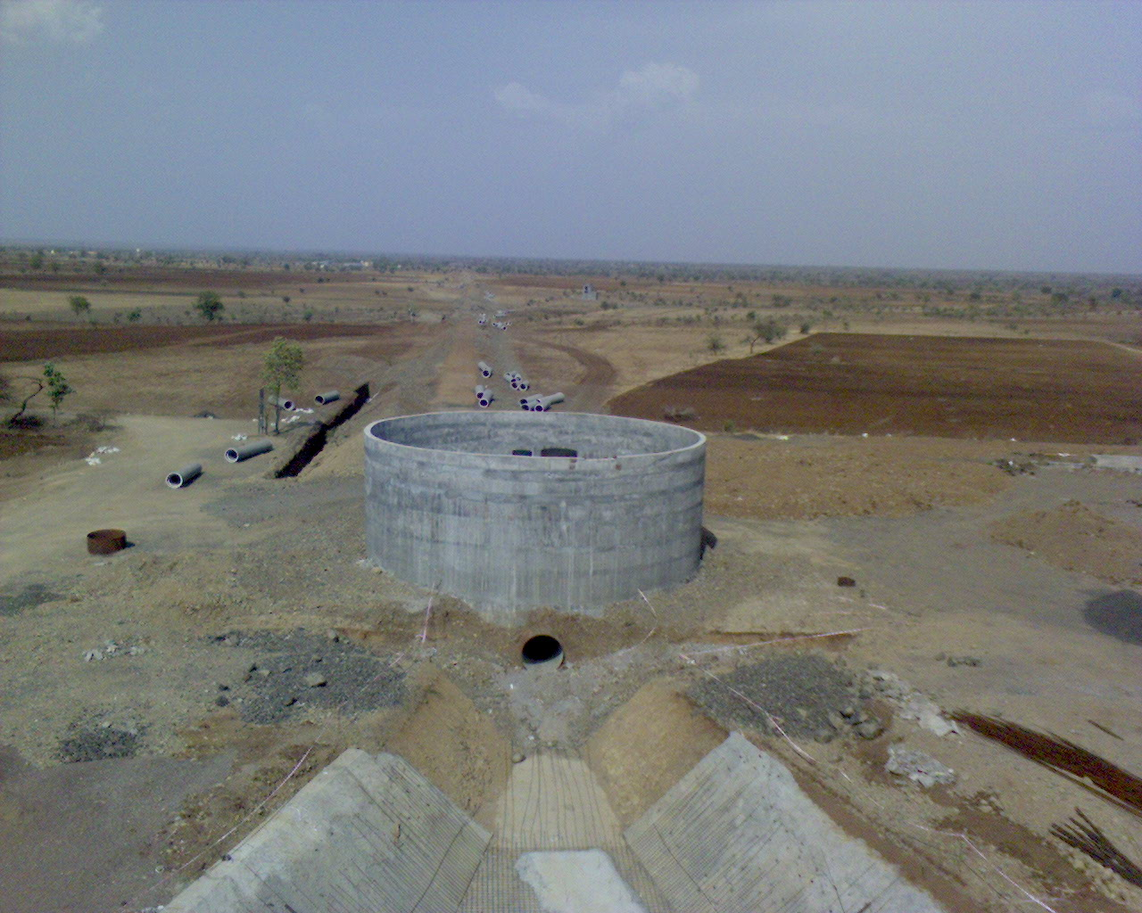 Main Distribution Chamber, Dehani lift irrigation scheme.